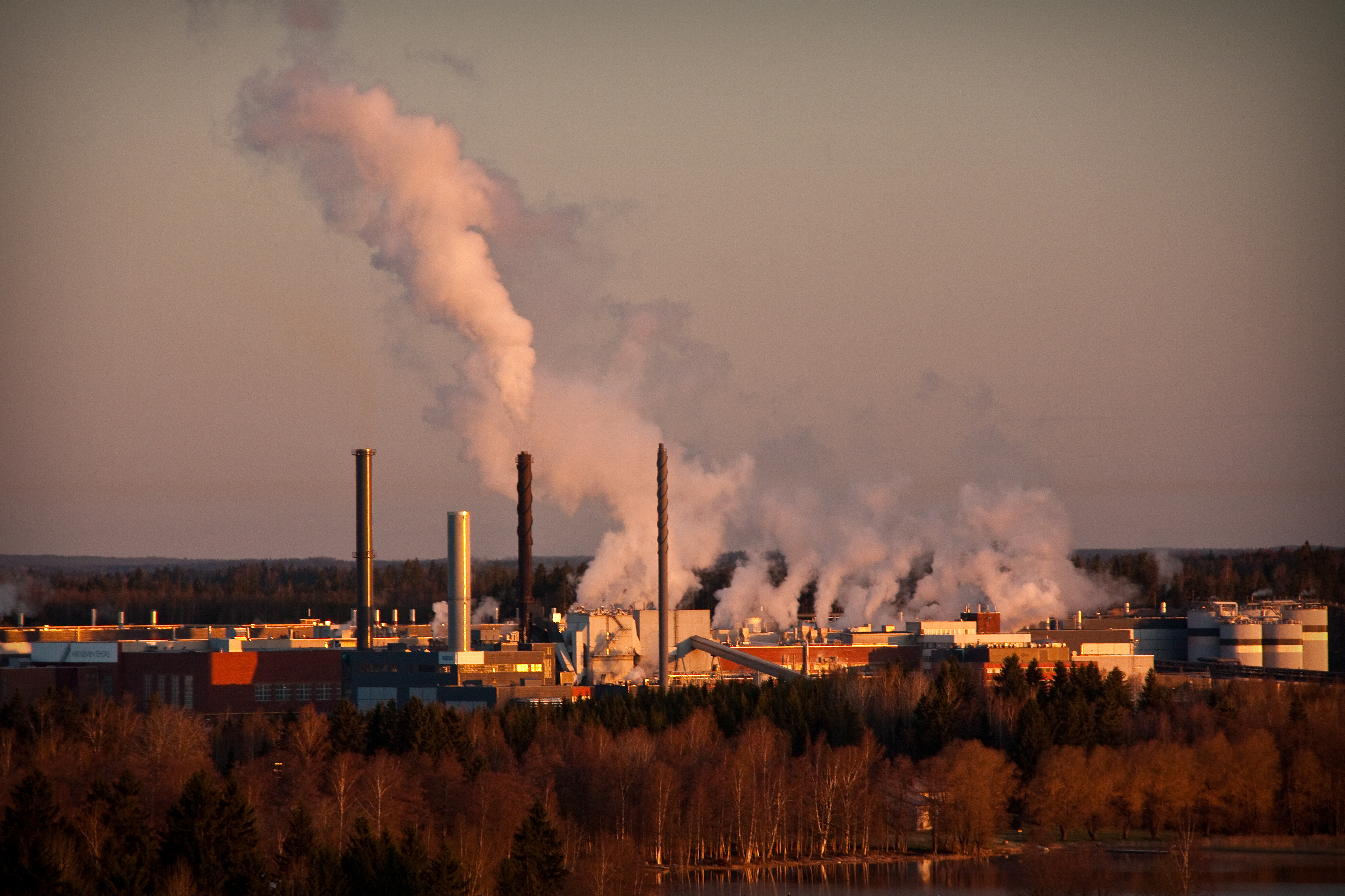 Sappi Kirkniemi paper mill.